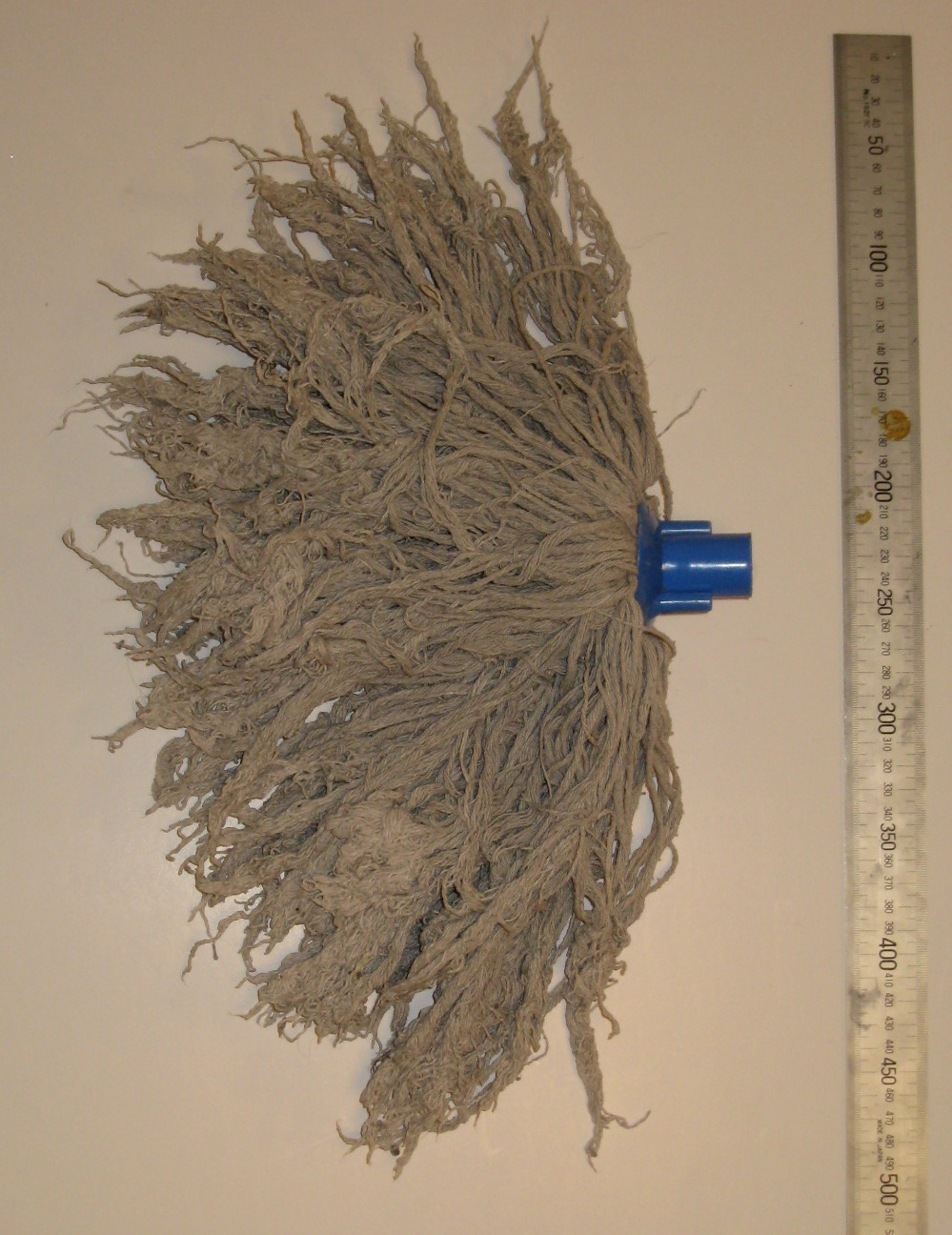 Classic yarn mop made of cotton, with internal thread in blue plastic part for fastening on handleö. Scale included for reference